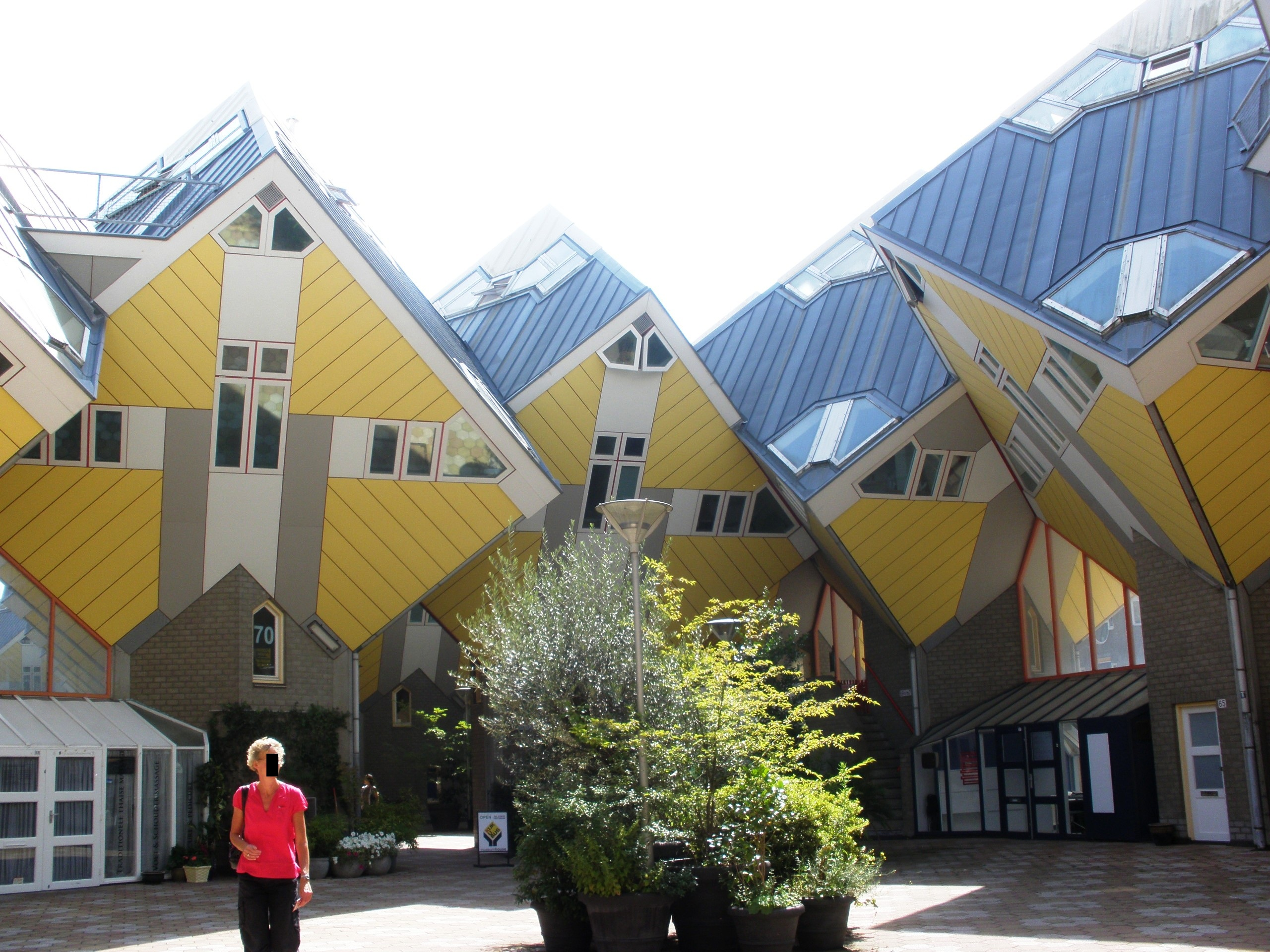 Cube house (Kubuswoningen) in Rotterdam